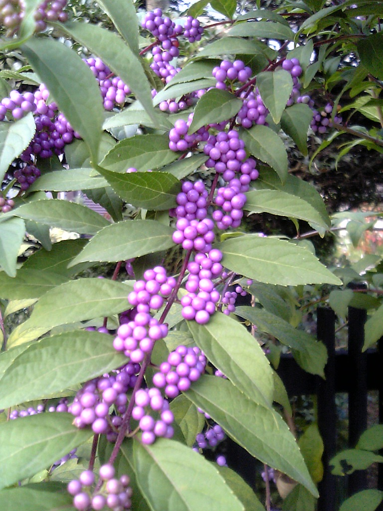 Beautyberry